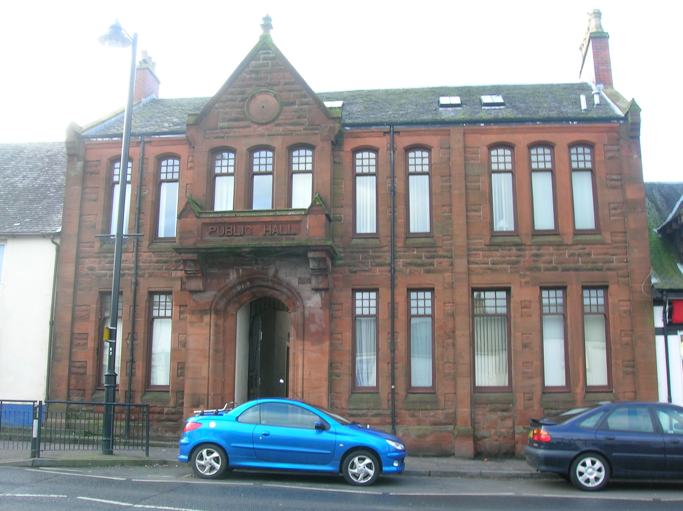 Kilmaurs Public Hall, East Ayrshire, Scotland.